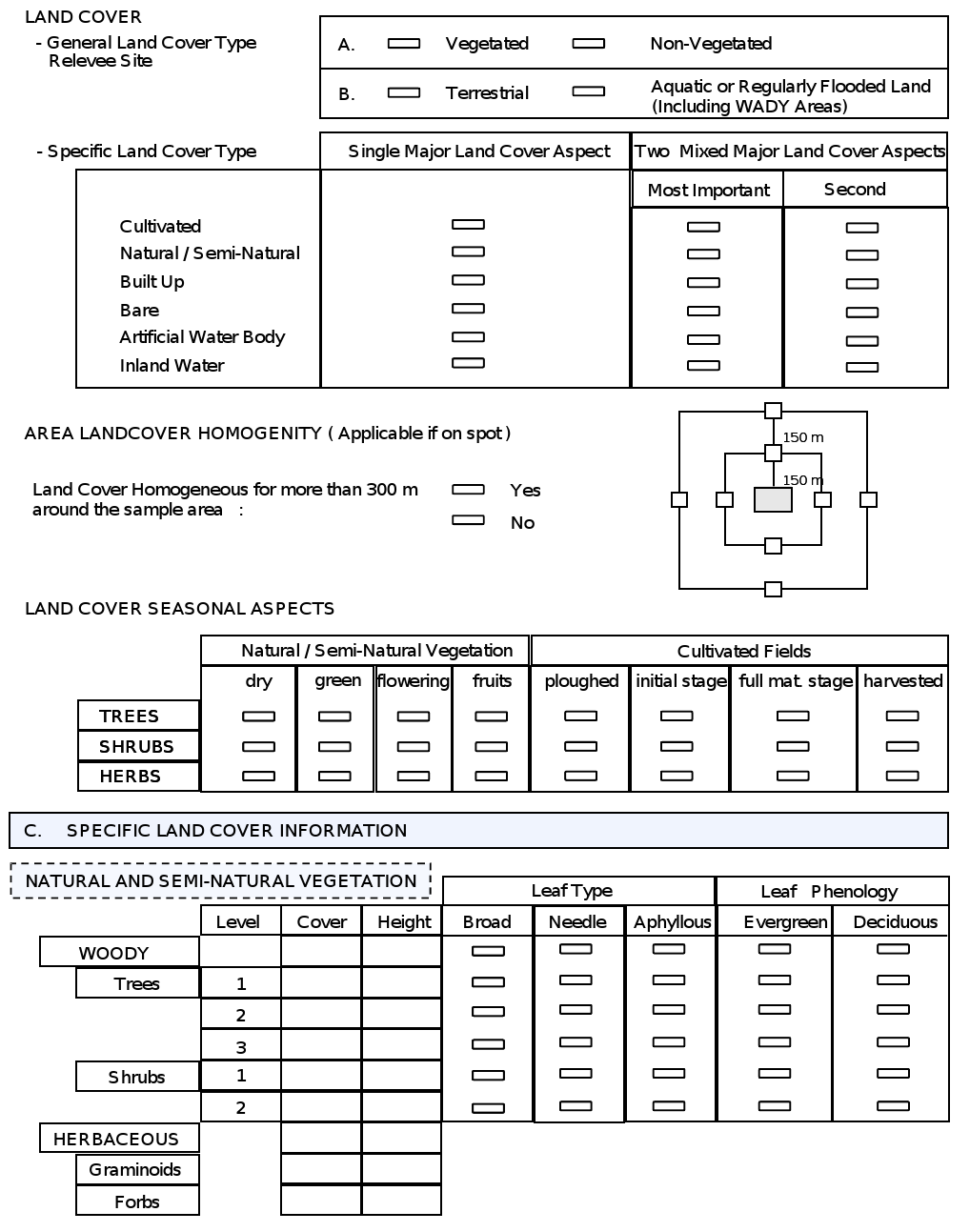 LCCS (Land Cover Classification System) field protocoll for landcover classification